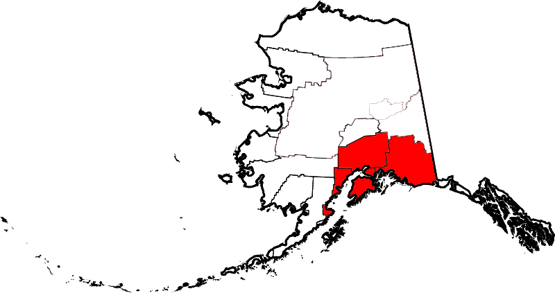 Map of Southcentral Alaska as defined by boroughs and census areas, based on this Alaska Office of Economic Development map